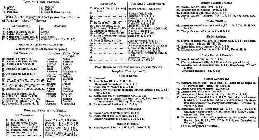 Traditional list of the Israelite and Jewish High Priests, from Aaron to the destruction of the Second Temple, comparing Biblical, Apocryphal, and extra-biblical sources. From the 1905-6 Jewish Encyclopedia.